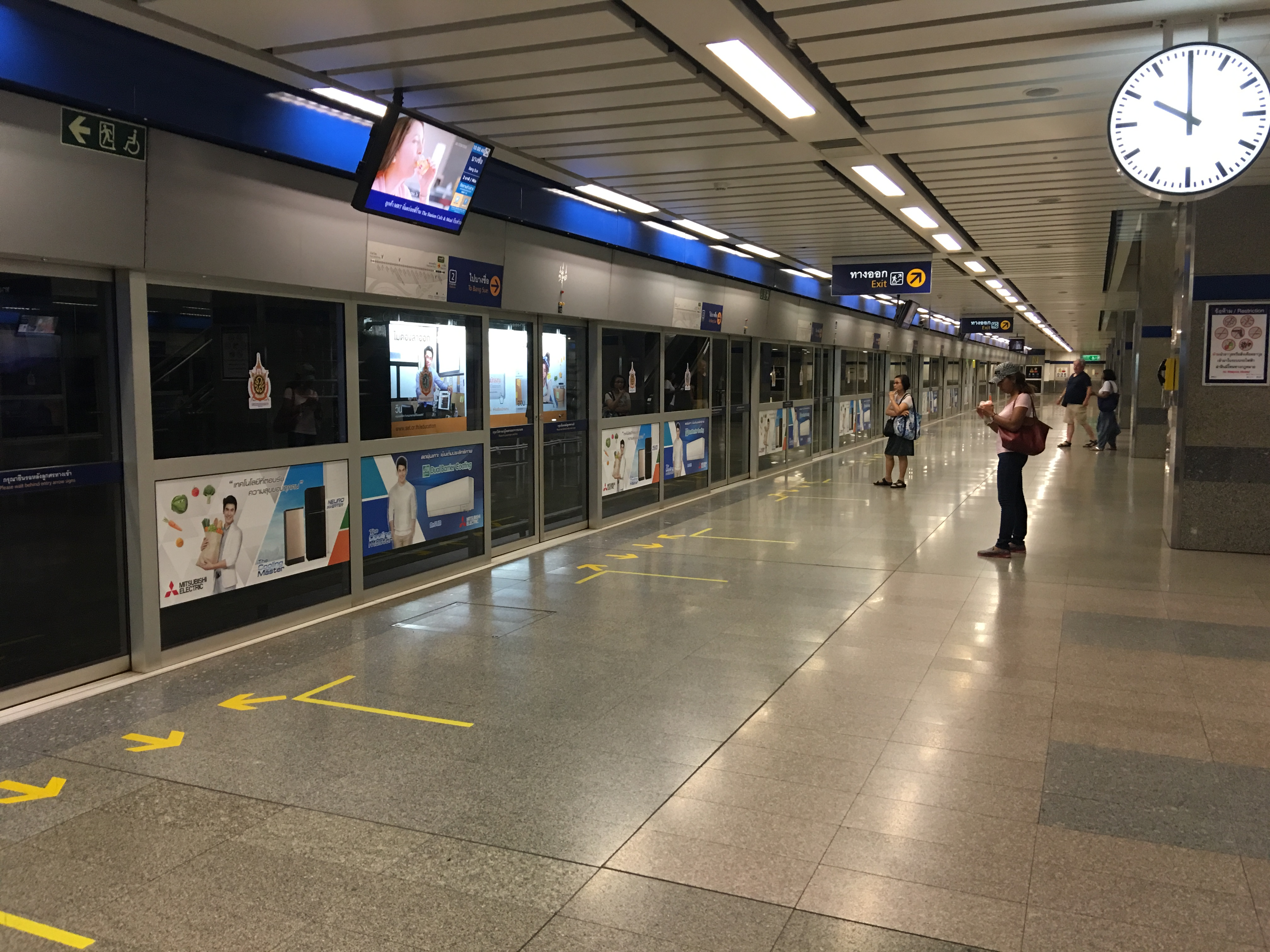 Chatuchak Park MRT Station 14 August 2016